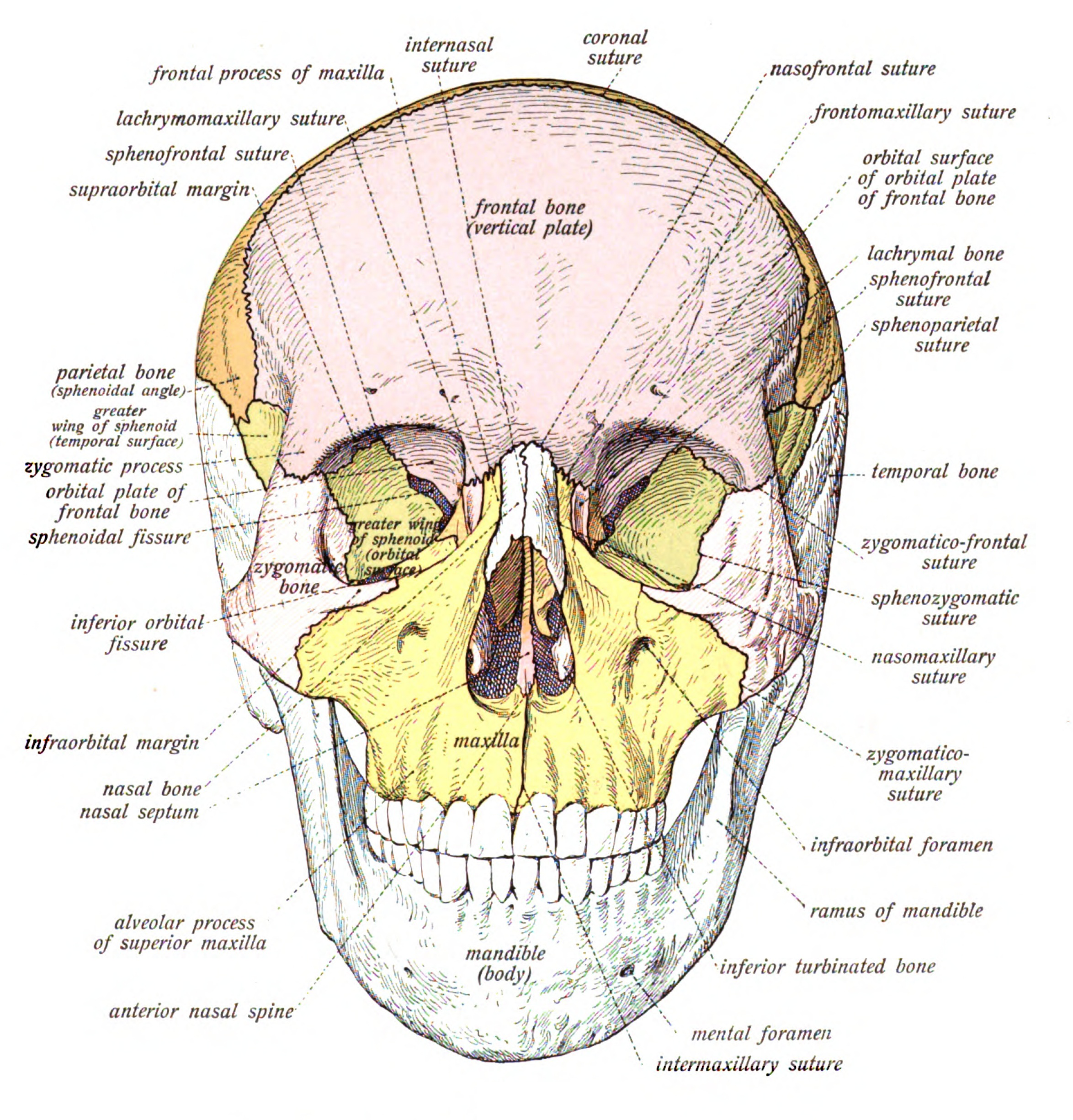 An anatomical illustration from the 1909 edition of Sobotta's Human anatomy with English terminology